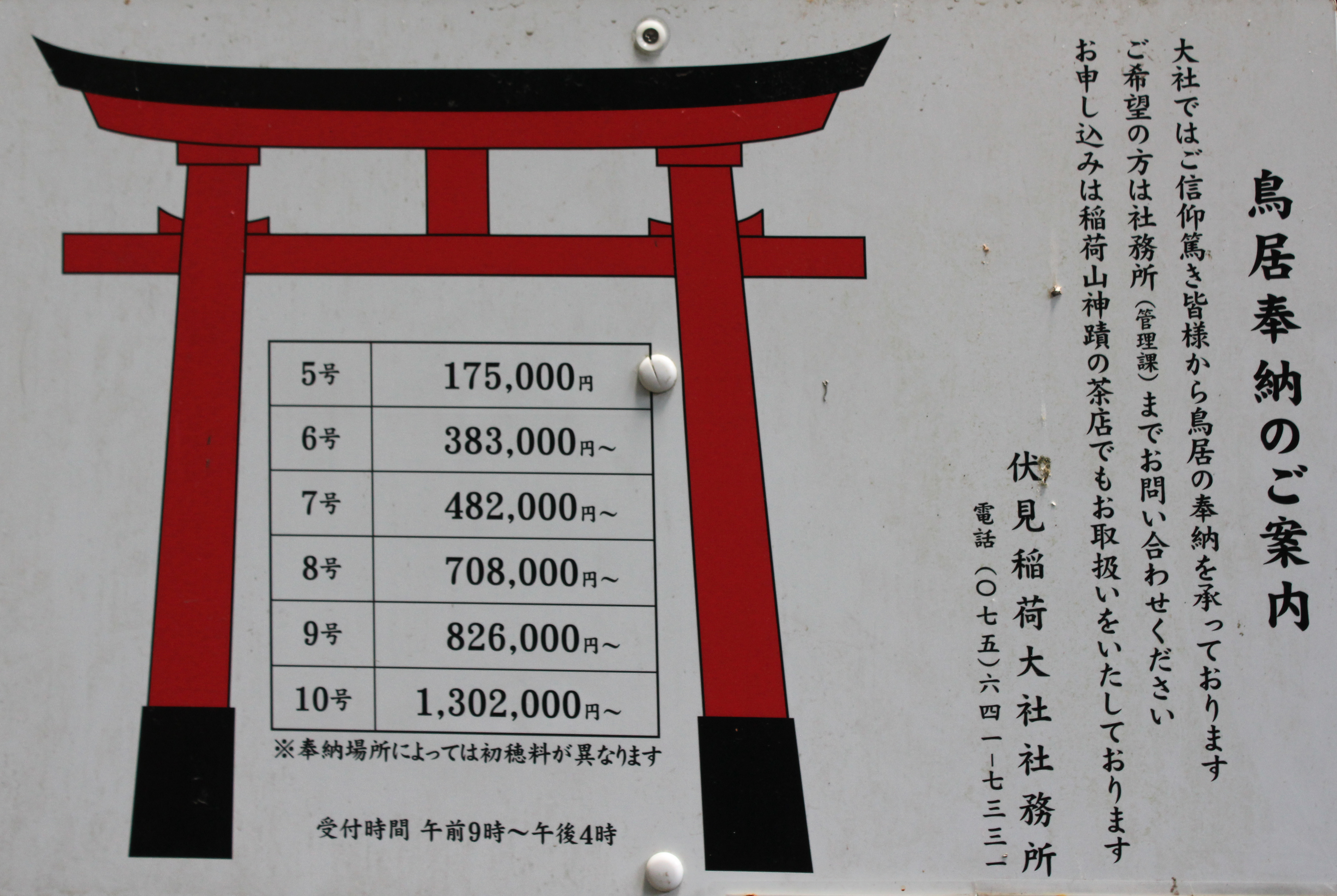 Price list for the Toris at Fushimi Inari-taisha temple